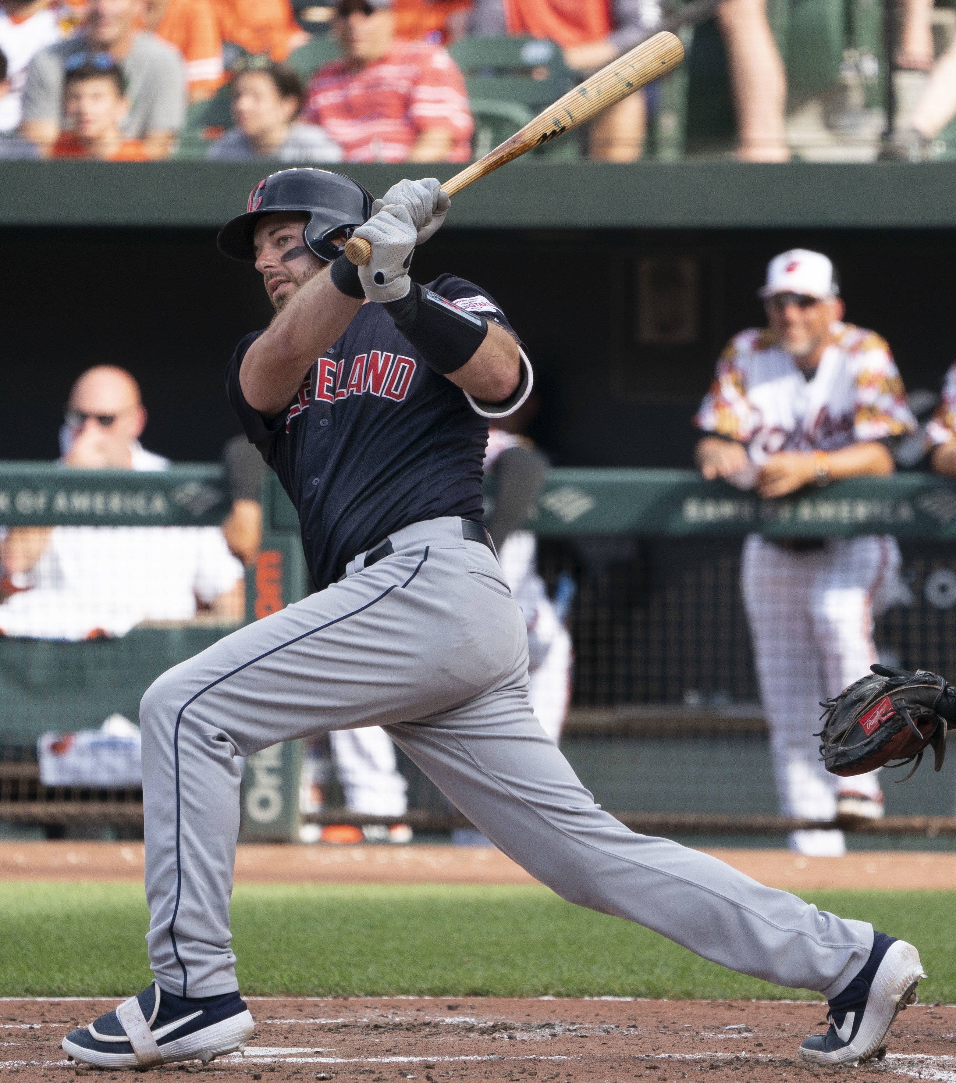 Kevin Plawecki bats for the Cleveland Indians during a 2019 game at Camden Yards in Baltimore